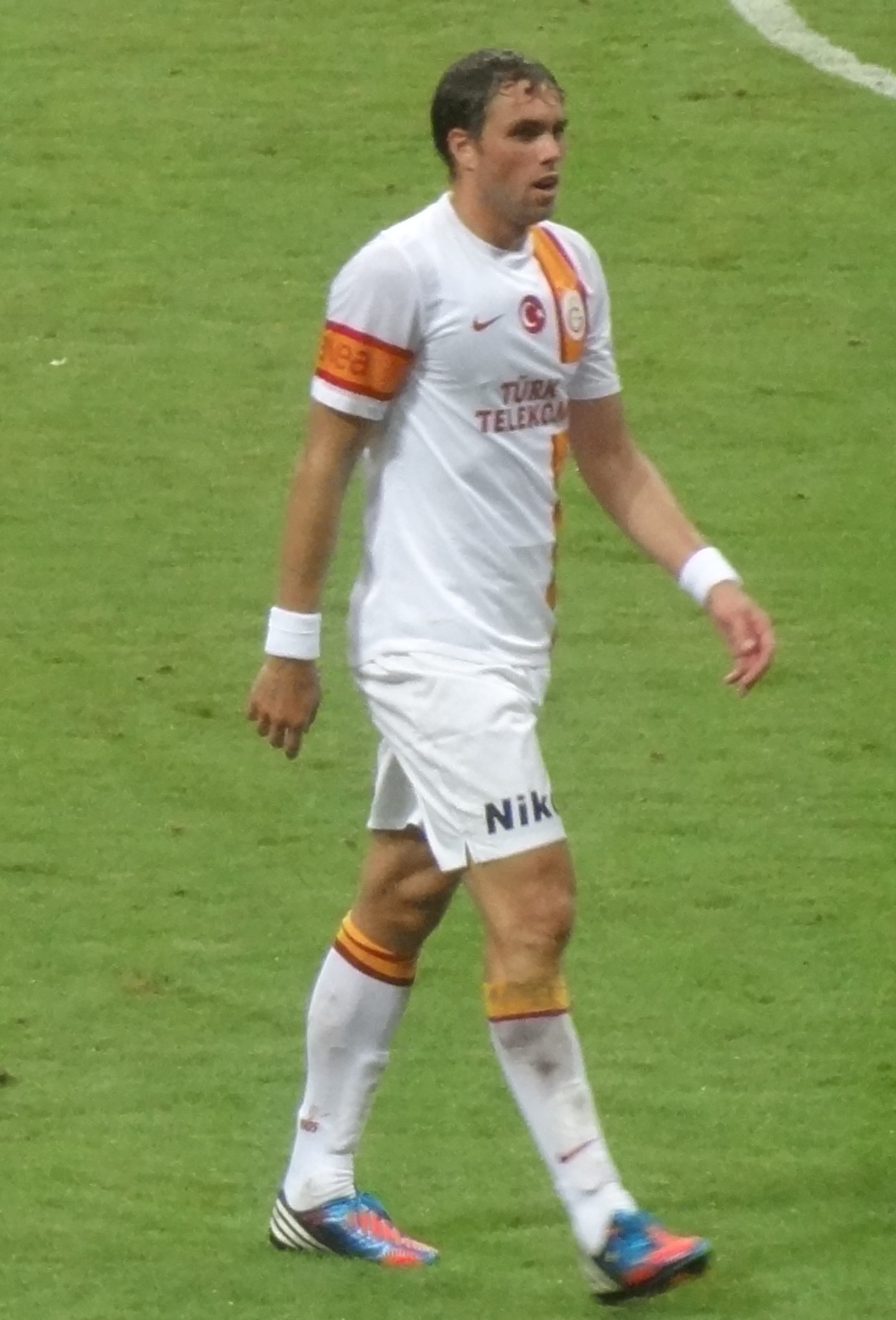 Johan against Fiorentina